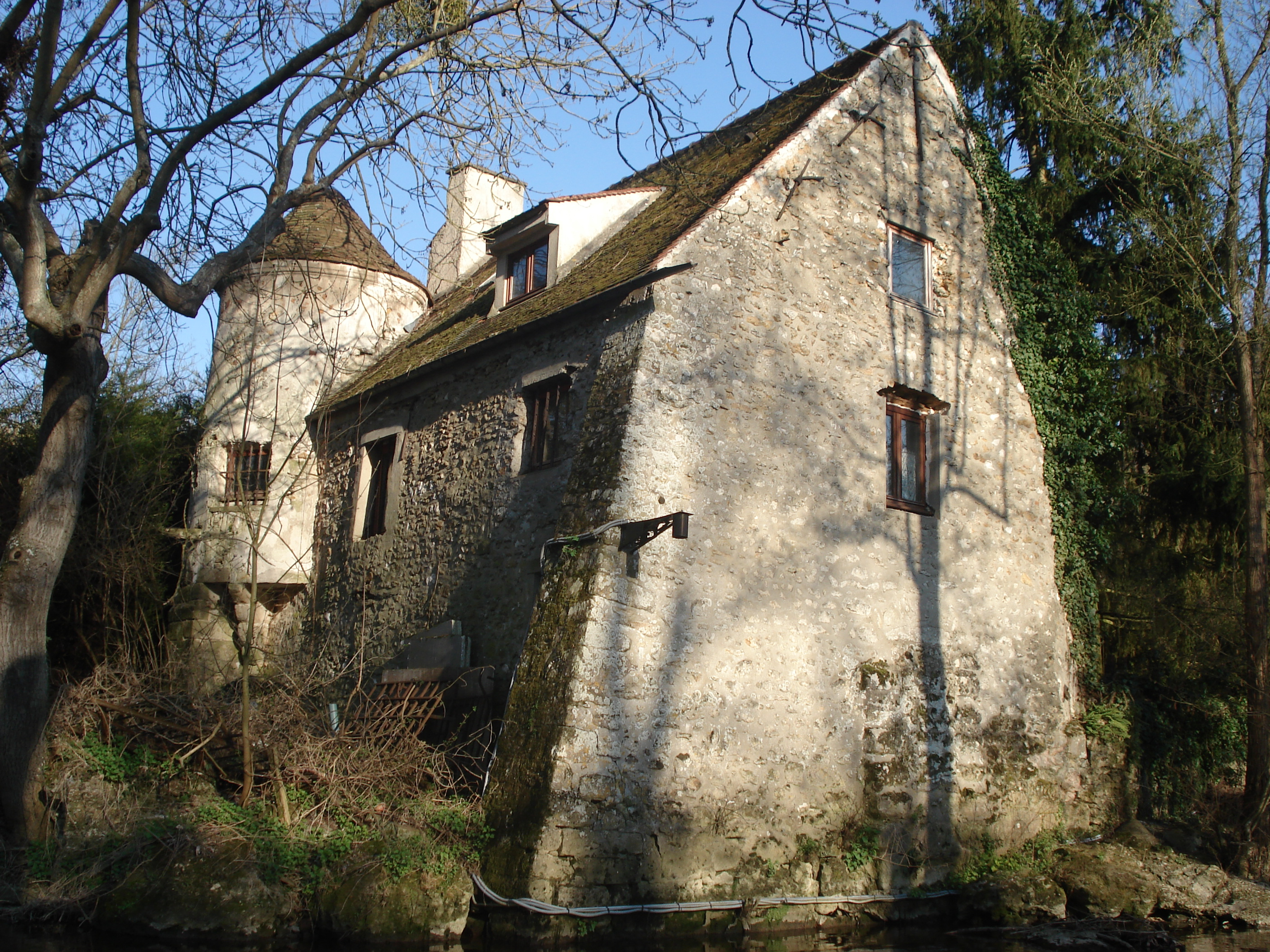 The Rochopt mill of Boussy-Saint-Antoine